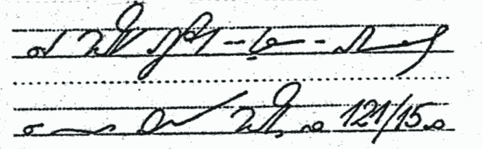 Example of shorthand in Unified Polish Shorthand System